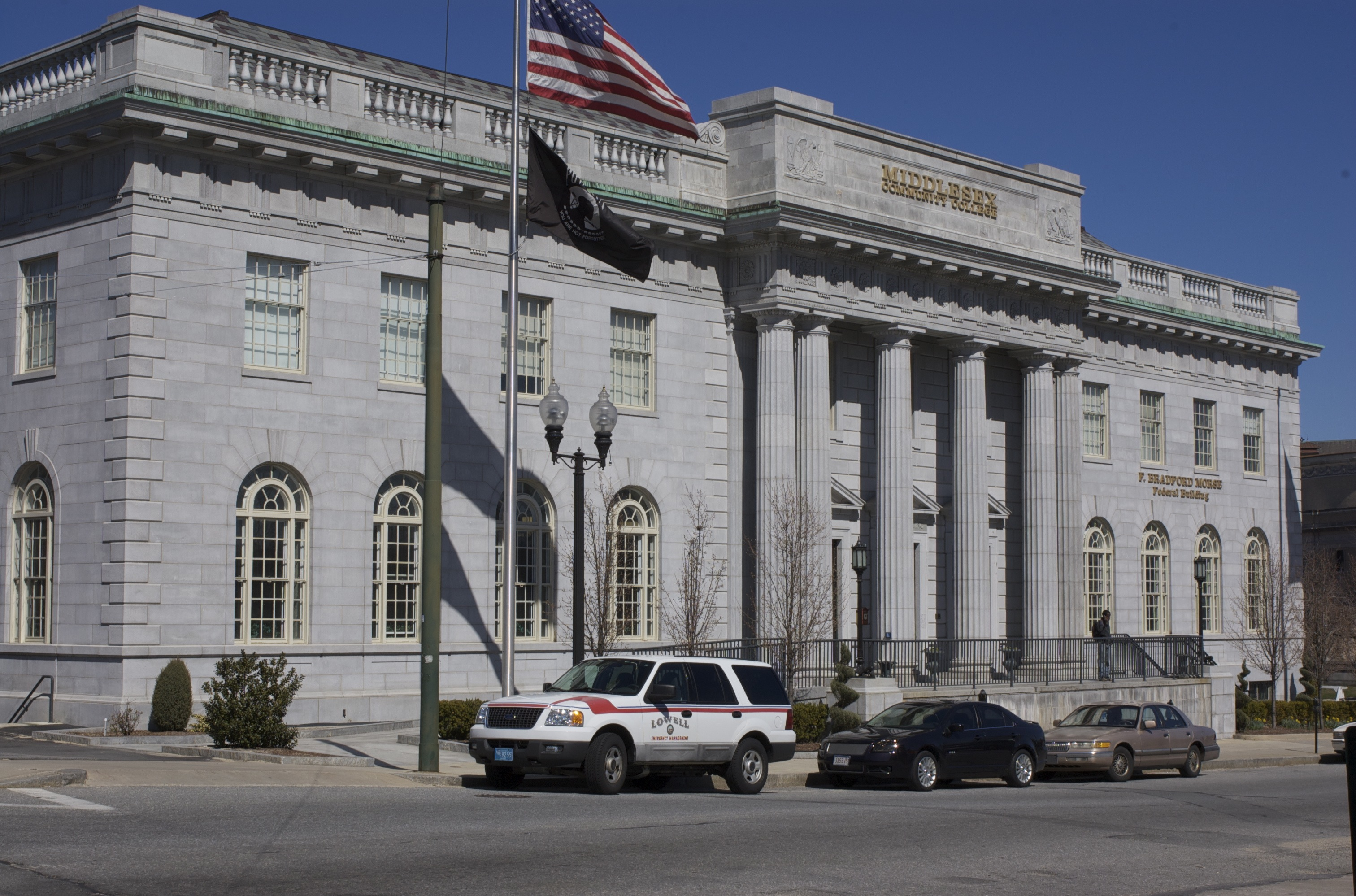 The historic U.S. Post Office building at 50 Kearney Square in Lowell, Massachusetts (now designated the F. Bradford Morse Federal Building, and occupied by Middlesex Community College).